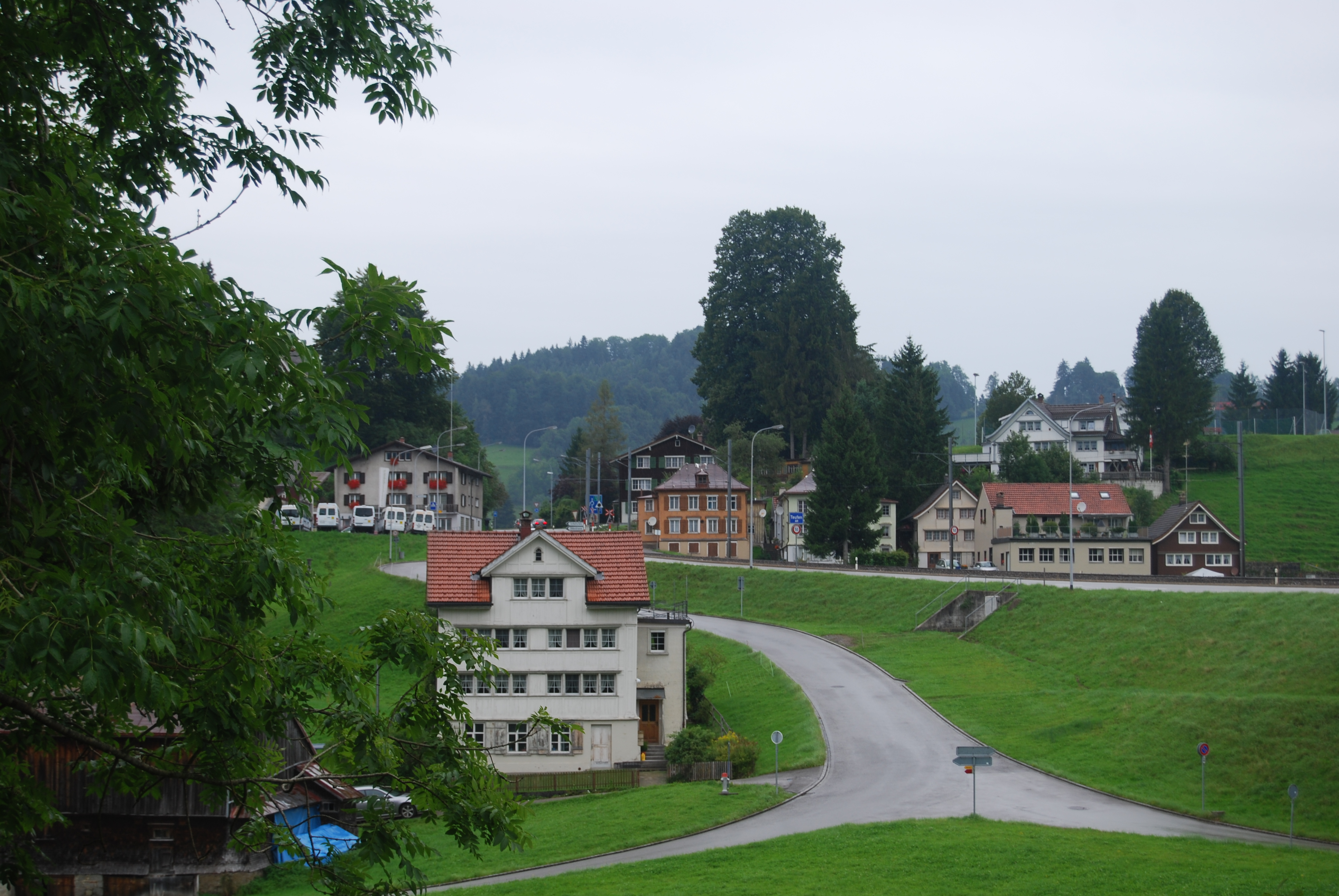 Teufen, canton of Appenzell Ausserrhoden, Switzerland